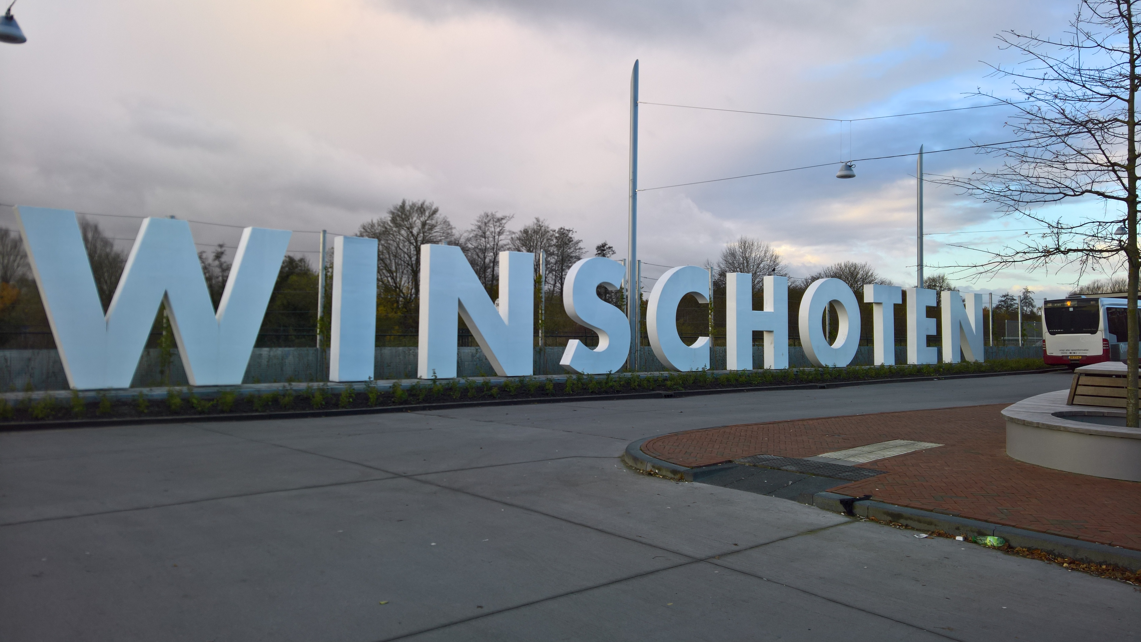 The Winschoten Railway 🛤 Station 🚉 in the year of 2017.